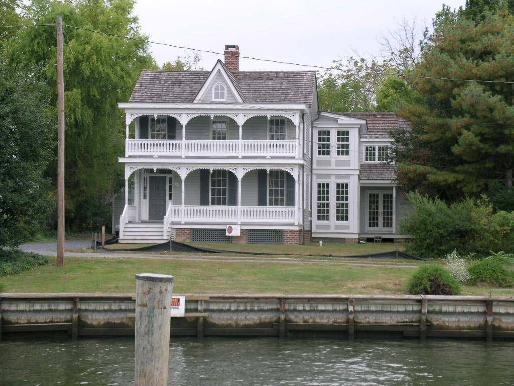 An image of the Wood House in St. Michaels.